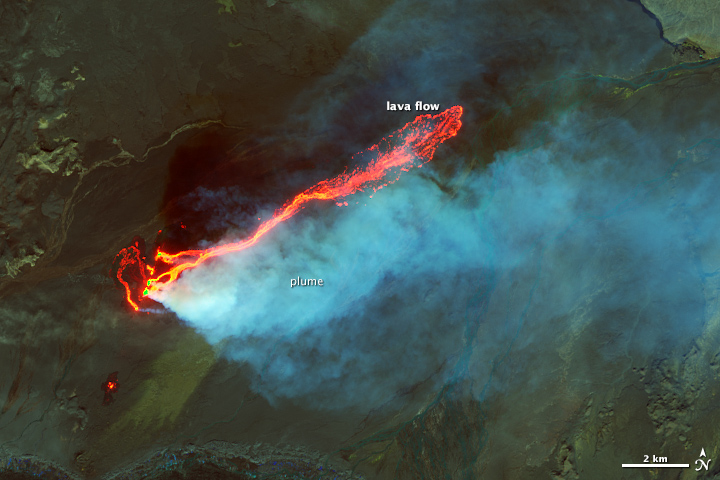 On September 6, 2014, the Operational Land Imager (OLI) on Landsat 8 captured this view of the ongoing eruption of the Holuhraun lava field in Iceland. The false-color images combine shortwave infrared, near infrared, and green light (OLI bands 6-5-3). Ice and the plume of steam and sulfur dioxide appear cyan and bright blue, while liquid water is navy blue. Bare or rocky ground around the Holuhraun lava field appears in shades of green or brown in this band combination. Fresh lava is bright orange and red.